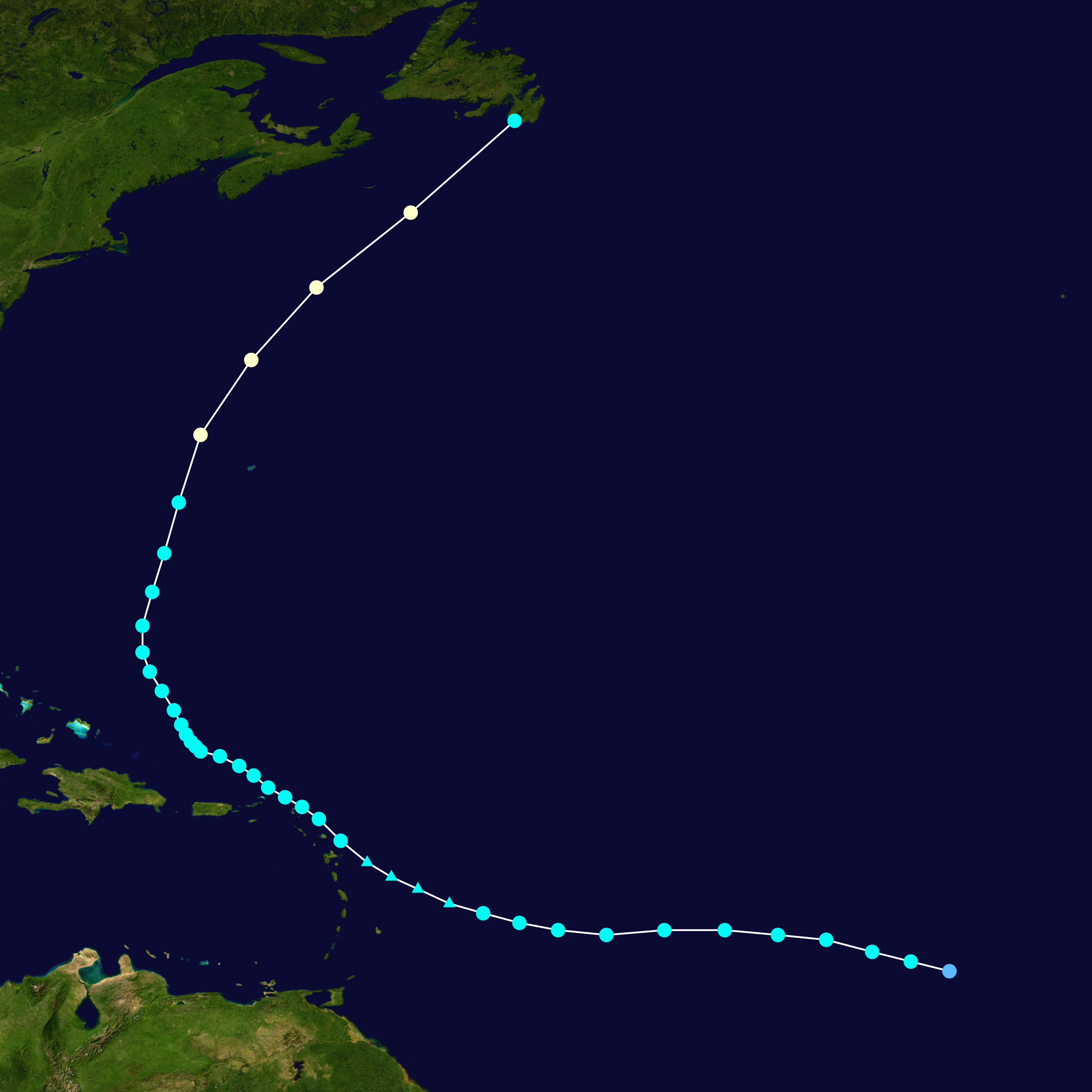 Track map of Hurricane Maria of the 2011 Atlantic hurricane season. The points show the location of the storm at 6-hour intervals. The colour represents the storm's maximum sustained wind speeds as classified in the Saffir–Simpson scale (see below), and the shape of the data points represent the nature of the storm, according to the legend below. Saffir–Simpson scale Tropical depression≤38 mph≤62 km/h Category 3111–129 mph178–208 km/h Tropical storm39–73 mph63–118 km/h Category 4130–156 mph209–251 km/h Category 174–95 mph119–153 km/h Category 5≥157 mph≥252 km/h Category 296–110 mph154–177 km/h Unknown Storm type Tropical cyclone Subtropical cyclone Extratropical cyclone / Remnant low / Tropical disturbance / Monsoon depression